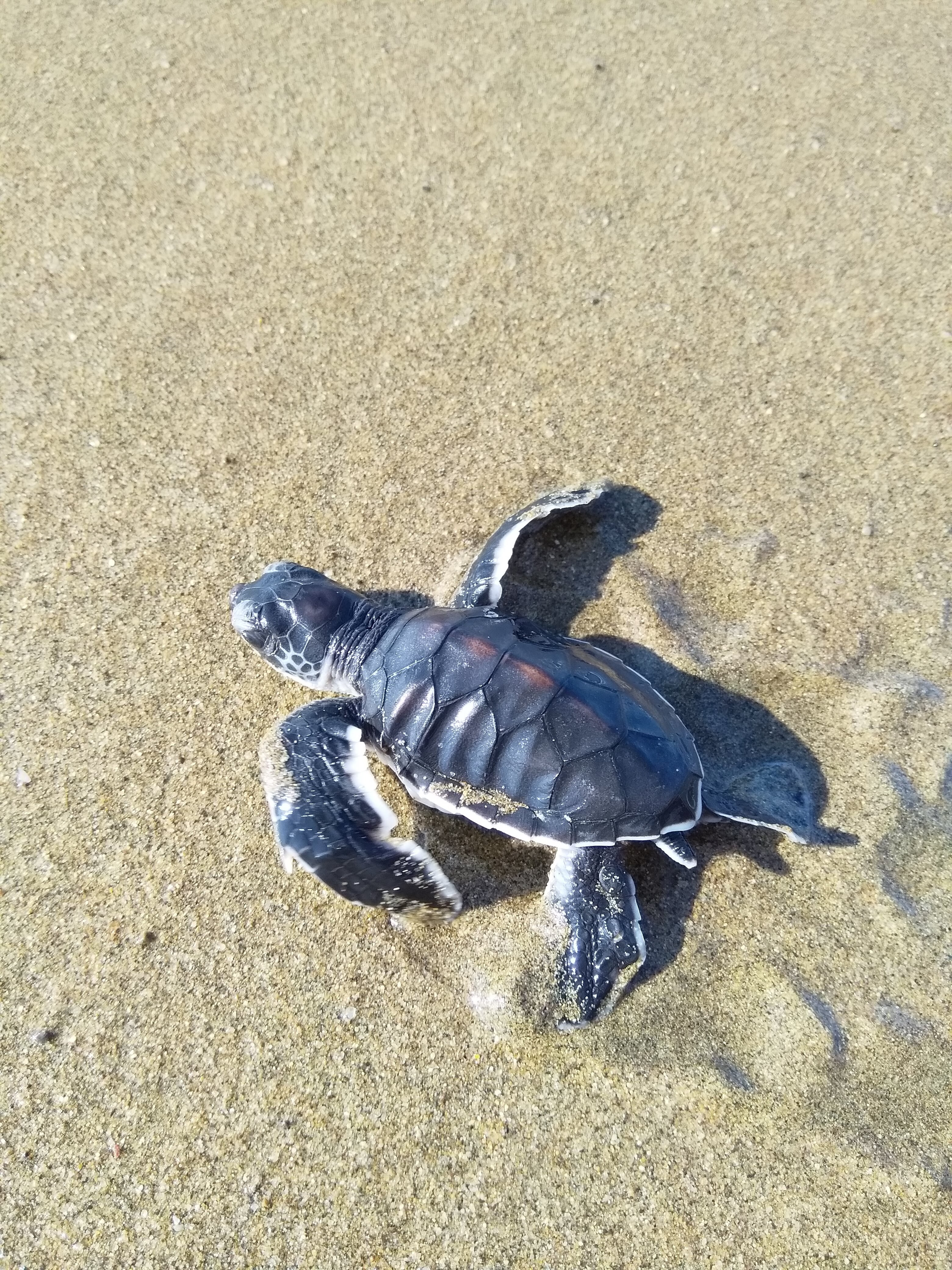 This picture is about a new hatching baby turtle we can release back to the sea. Normally it is a one day old baby turtle. This is one of six species of turtles that lay their eggs at Sukamade beach.